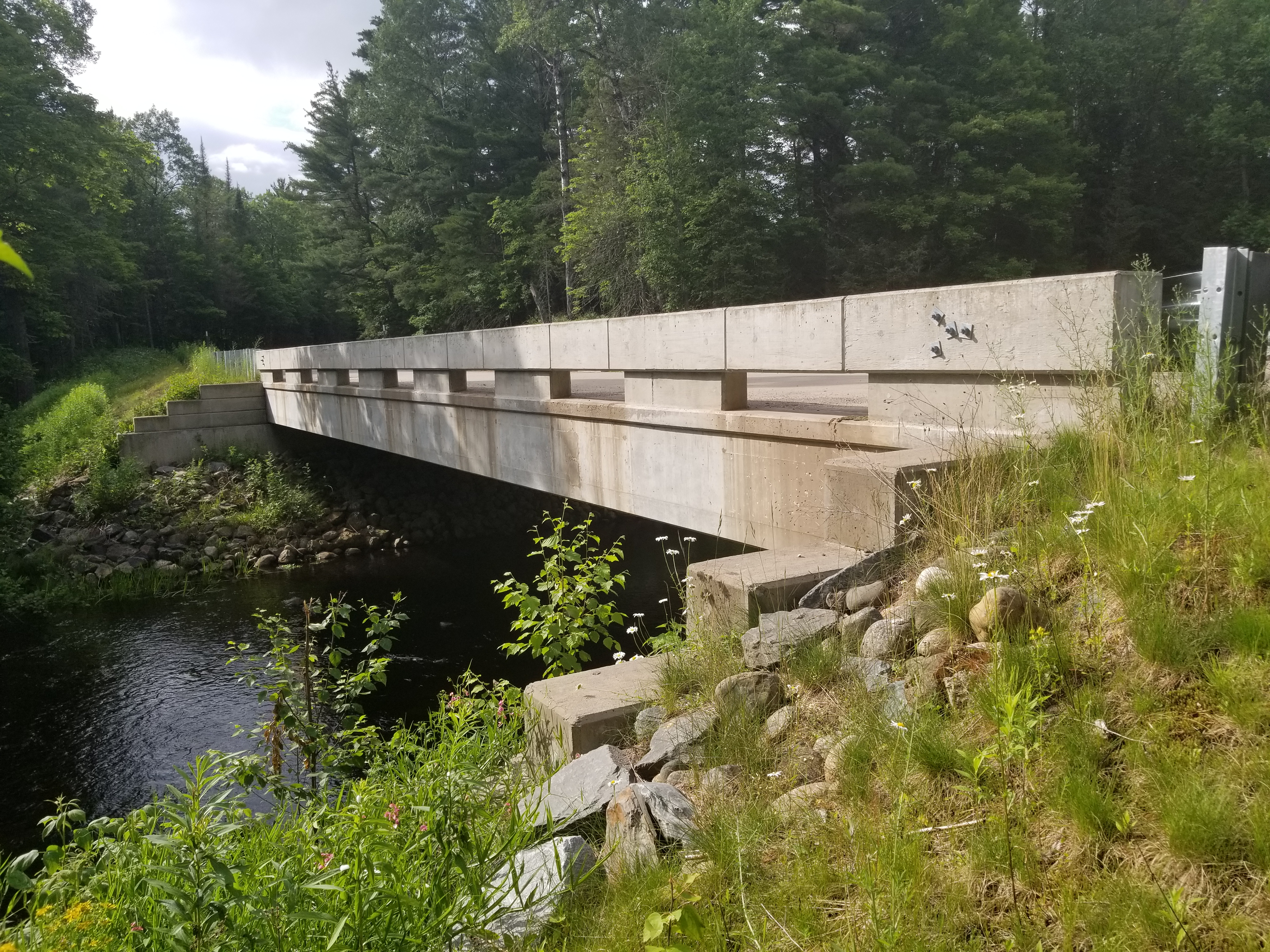 The replacement bridge for the old Forest Route 157–Tamarack River Bridge in the Upper Peninsula of Michigan.